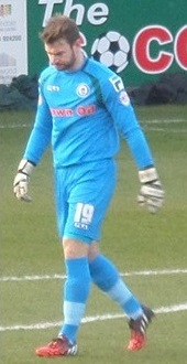 Jamie Jones in 2015